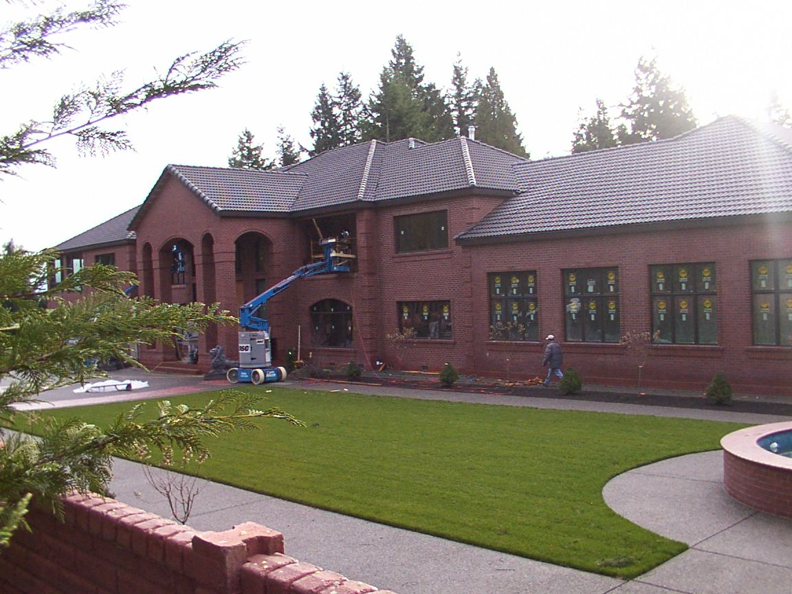 Gontmakher Mansion in Bellevue, Washington From user brianhe's cheap Kodak digital camera. Taken 2005-12-29.